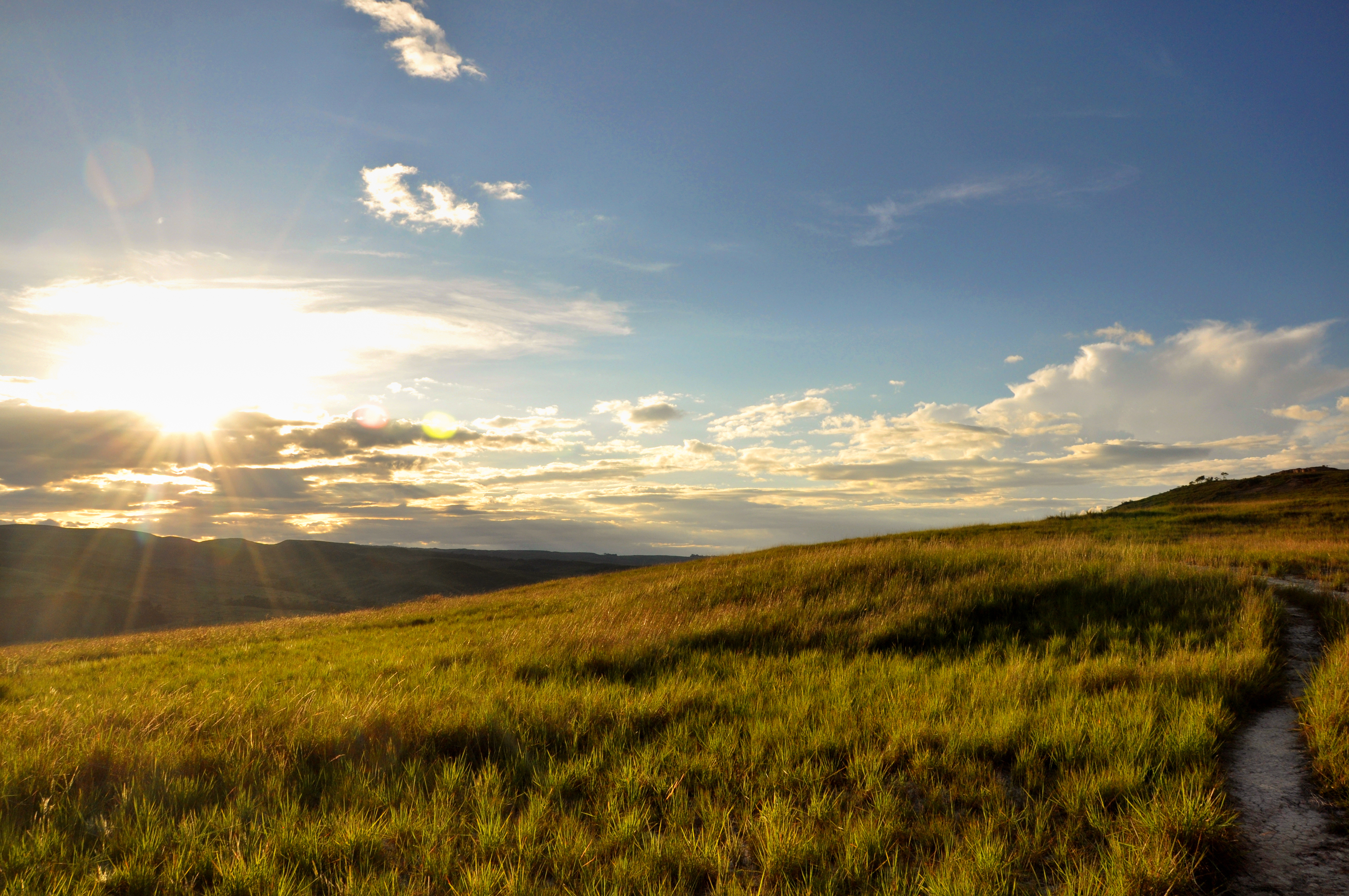 Landscape of Gran Sabana, on the trail that leads to Roraima Mt.